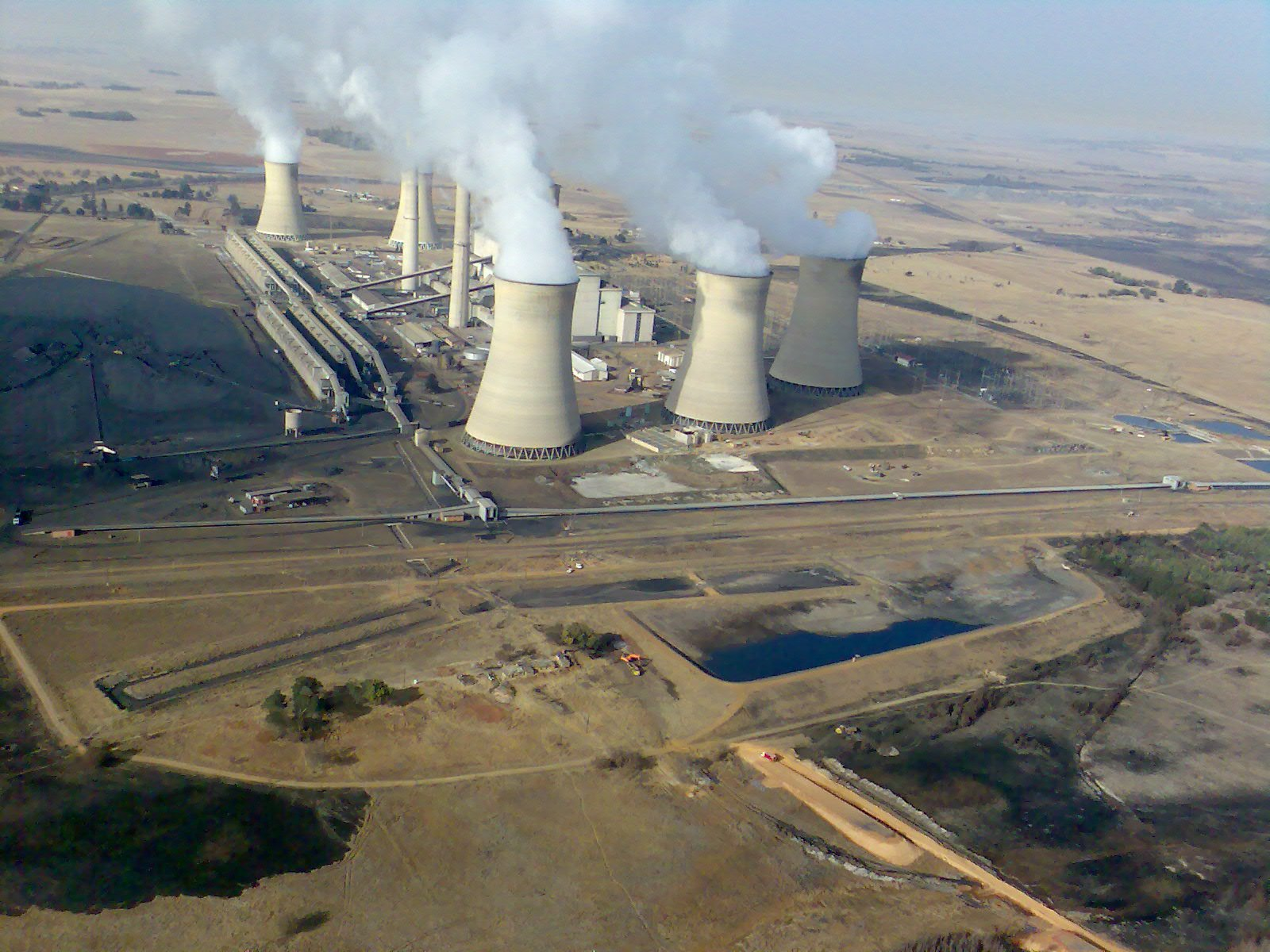 Arnot Power Station, Middelburg, South Africa (coal plant)